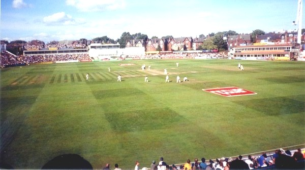 I took the picture myself in 2001